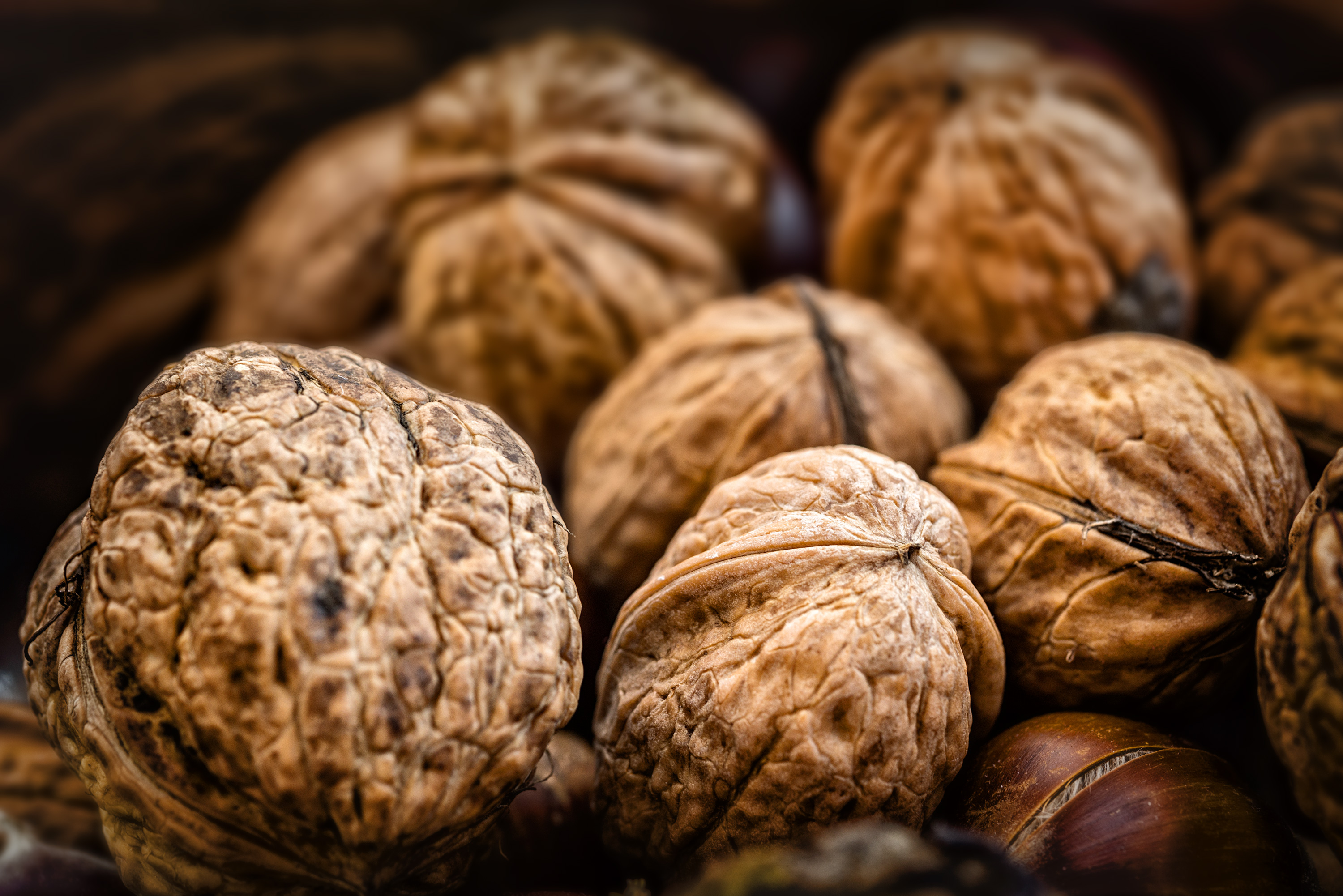 Freshly collected Walnuts of various sizes